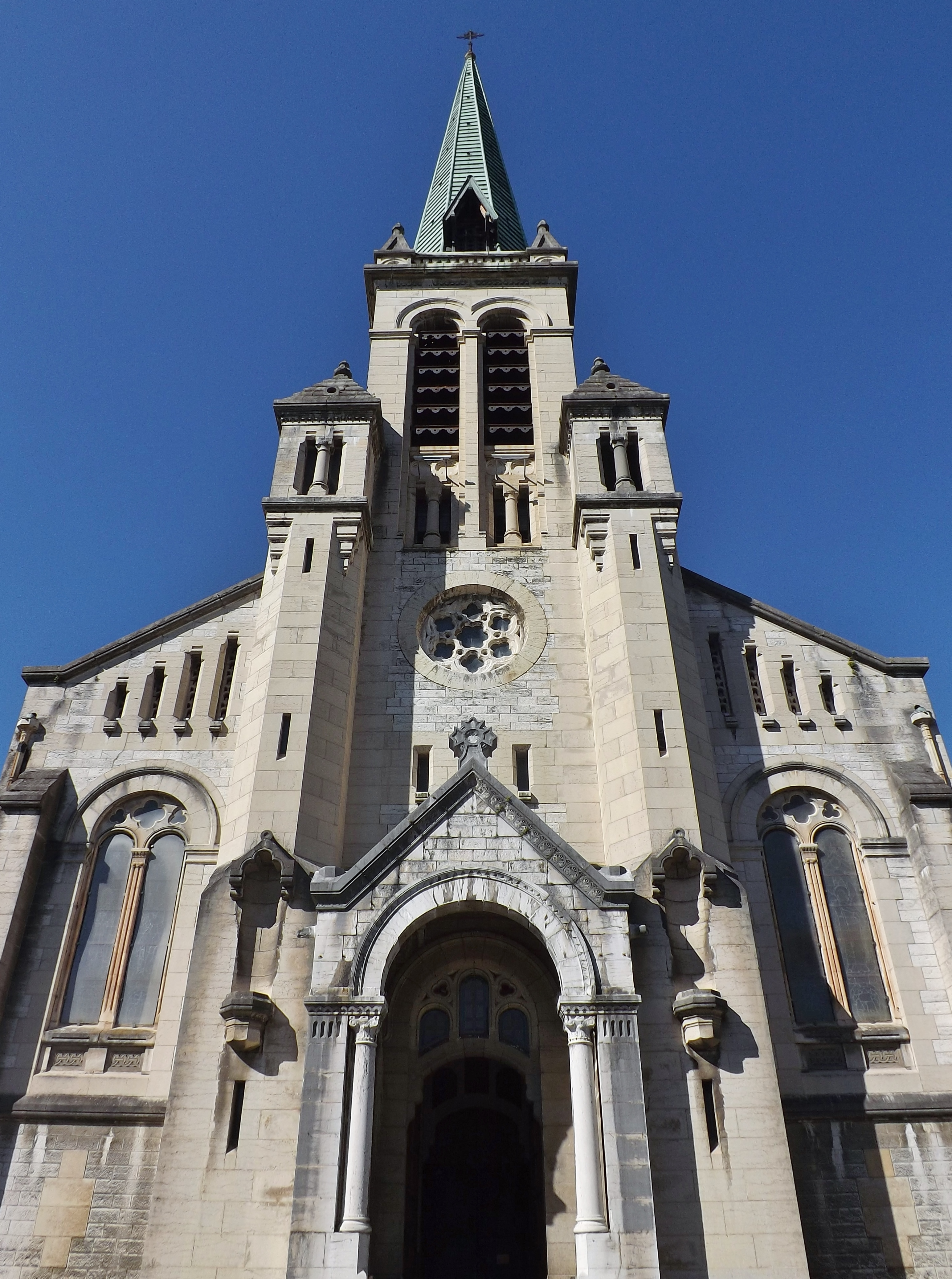 Sight of the église Notre-Dame d'Aix-les-Bains church, in Aix-les-Bains, Savoie, France.